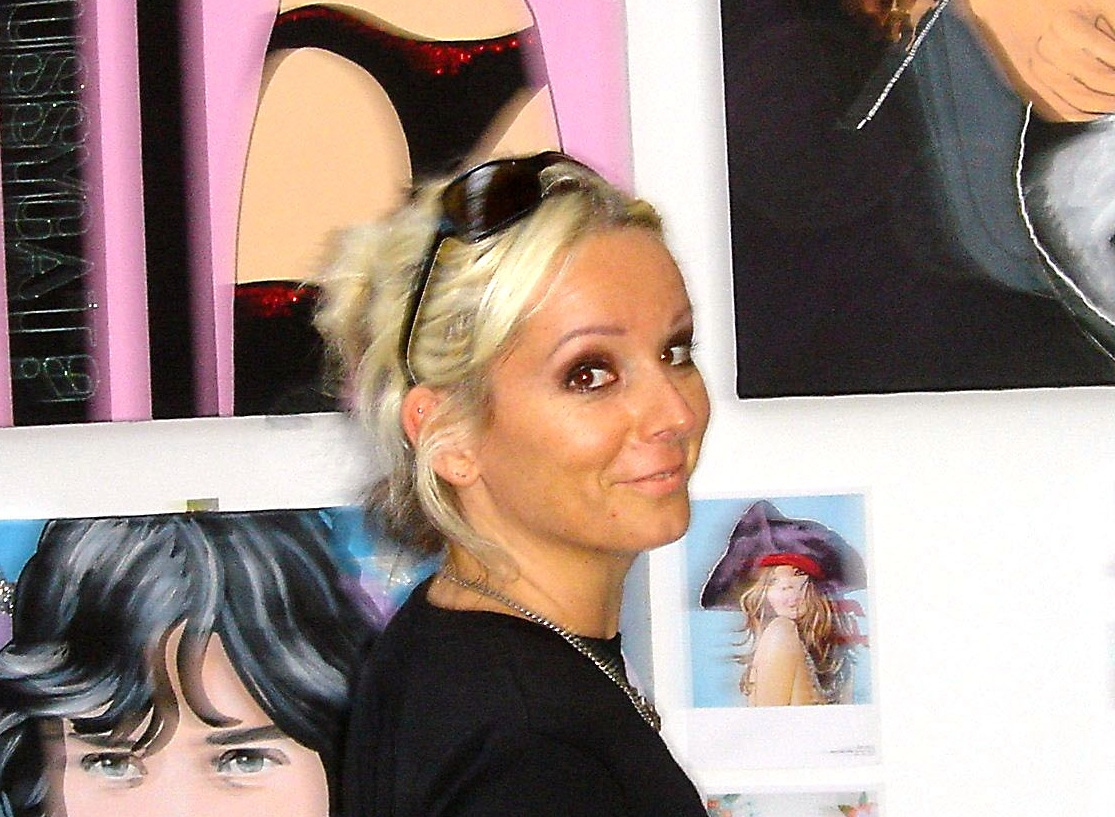 Wee Flowers